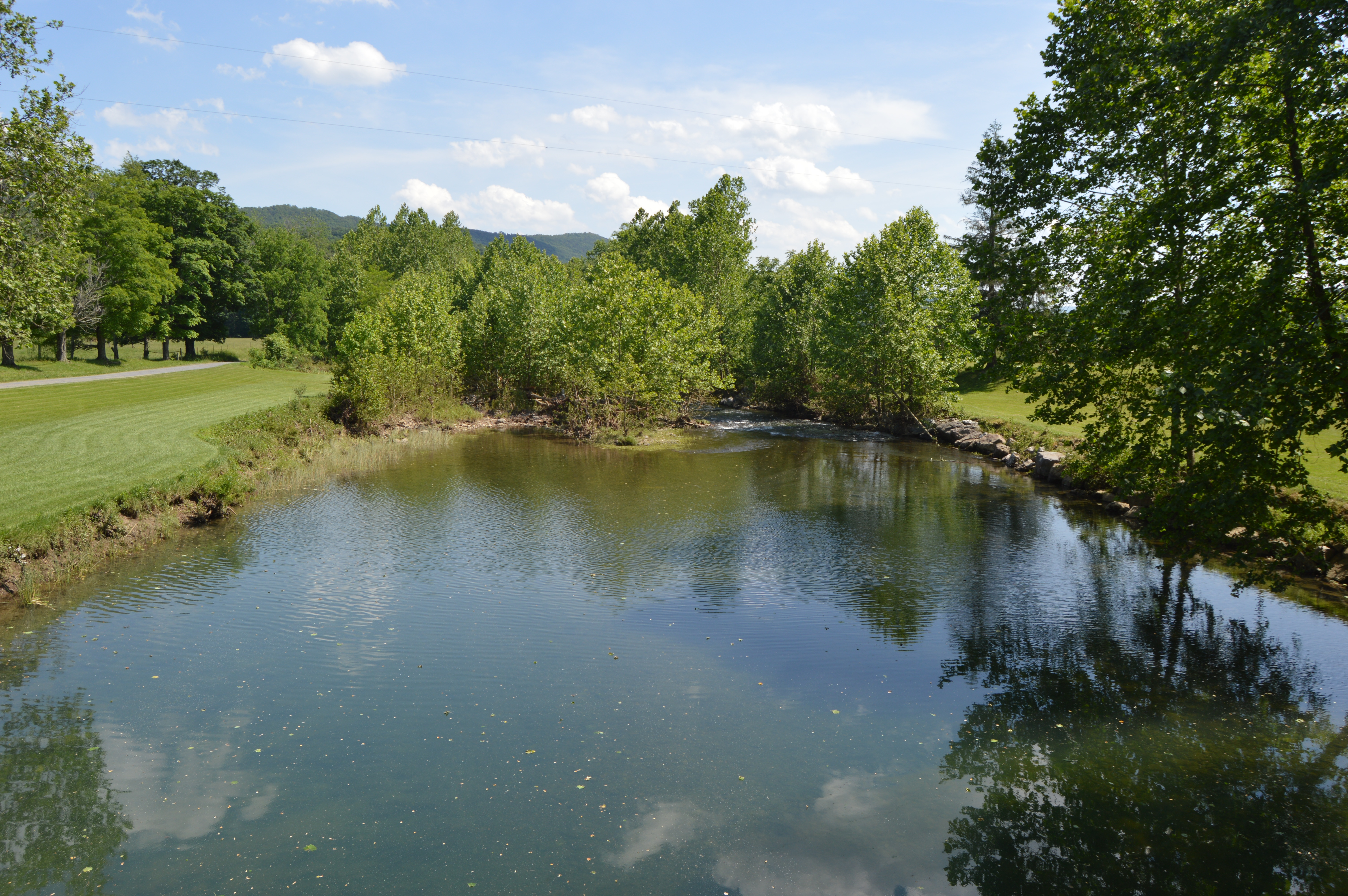 Looking downstream (southwest) over the Calfpasture River from the Ramsey Gap Road bridge in extreme southwestern Augusta County, Virginia, United States.